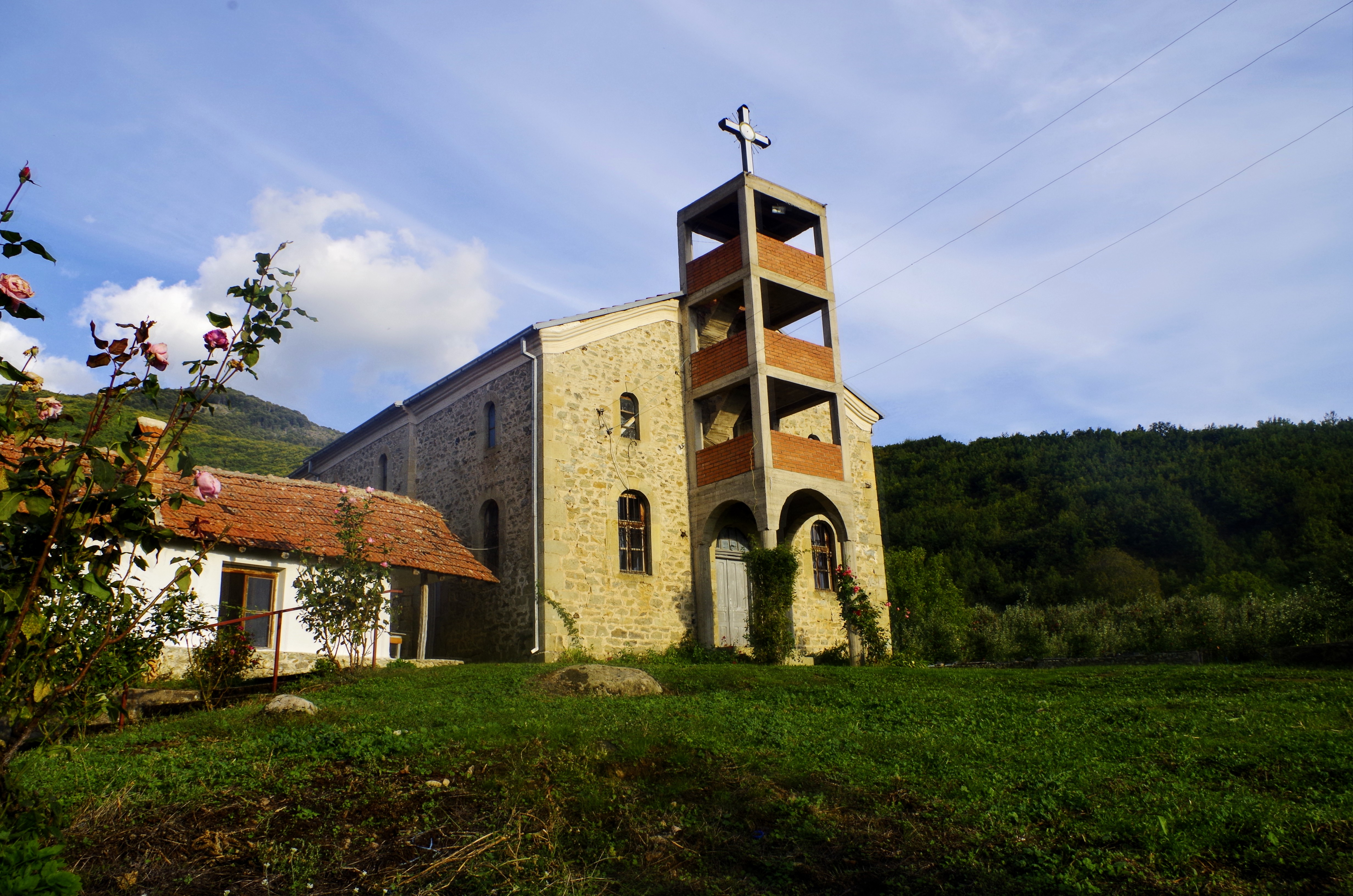 View of the St. Michael the Archangel Church in the village Arvati